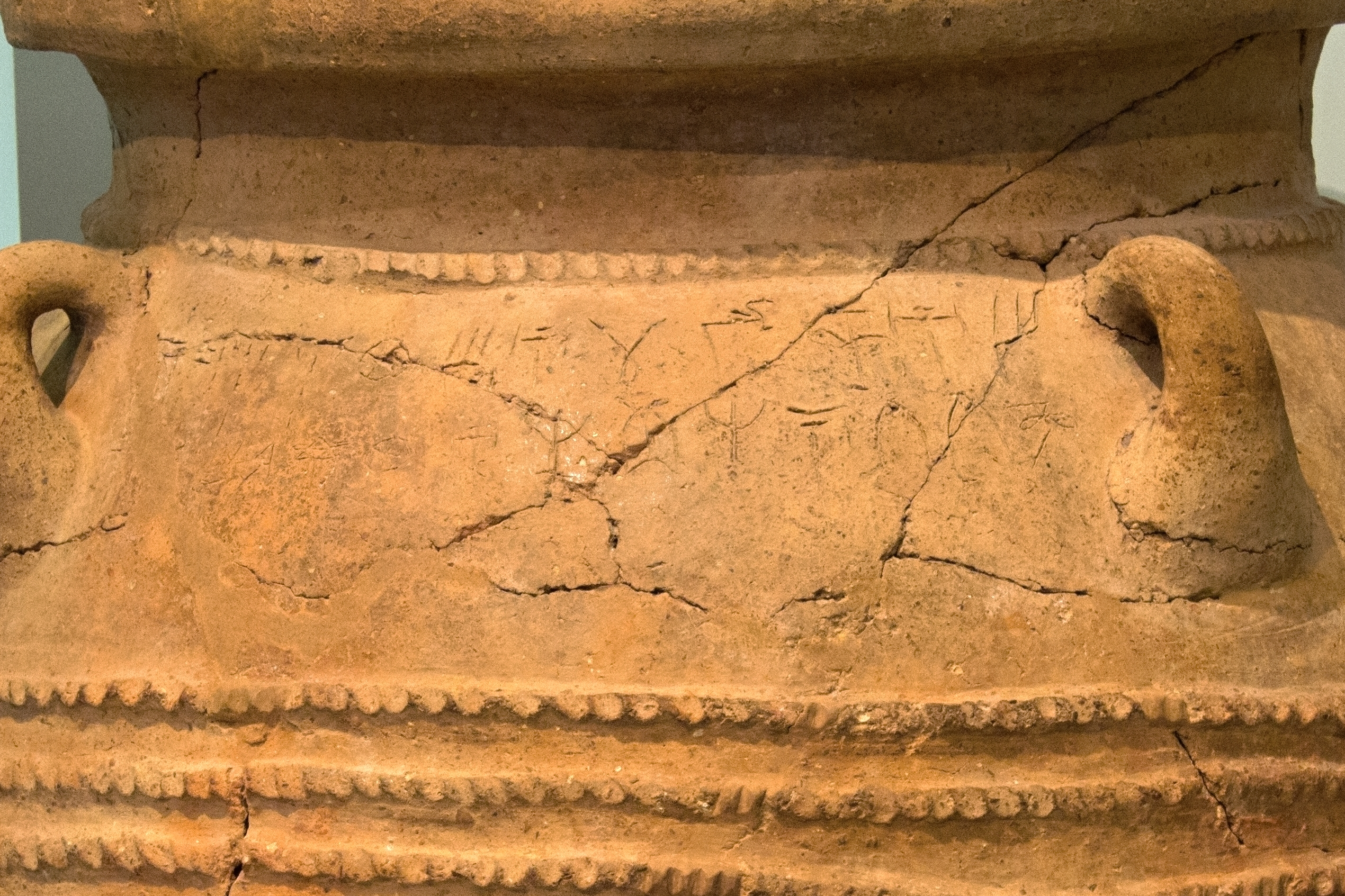 Clay vessel for the must. Detail of inscription. Malia, 1800-1700 BC. Archaeological Museum of Heraklion.